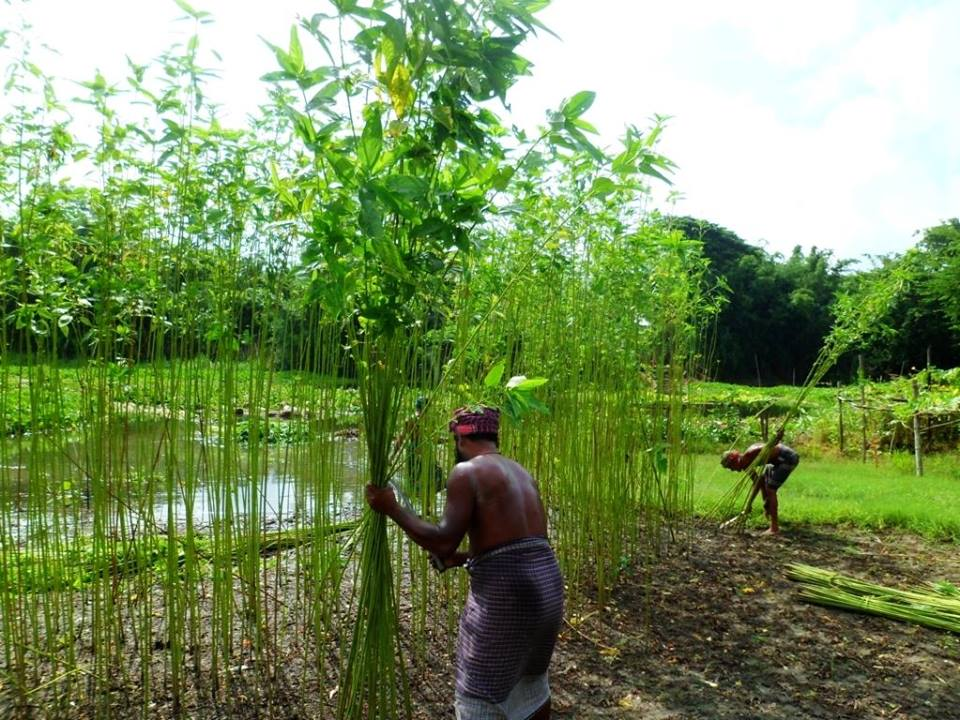 I captured all these photo from my own village Faridpur,Nawdoba.It's a beautiful place.Actually,the whole Bangladesh is quit splendid in natural view.